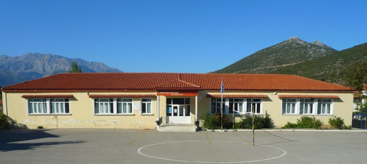 Primary scool in Steiri, Boeotia, Greece